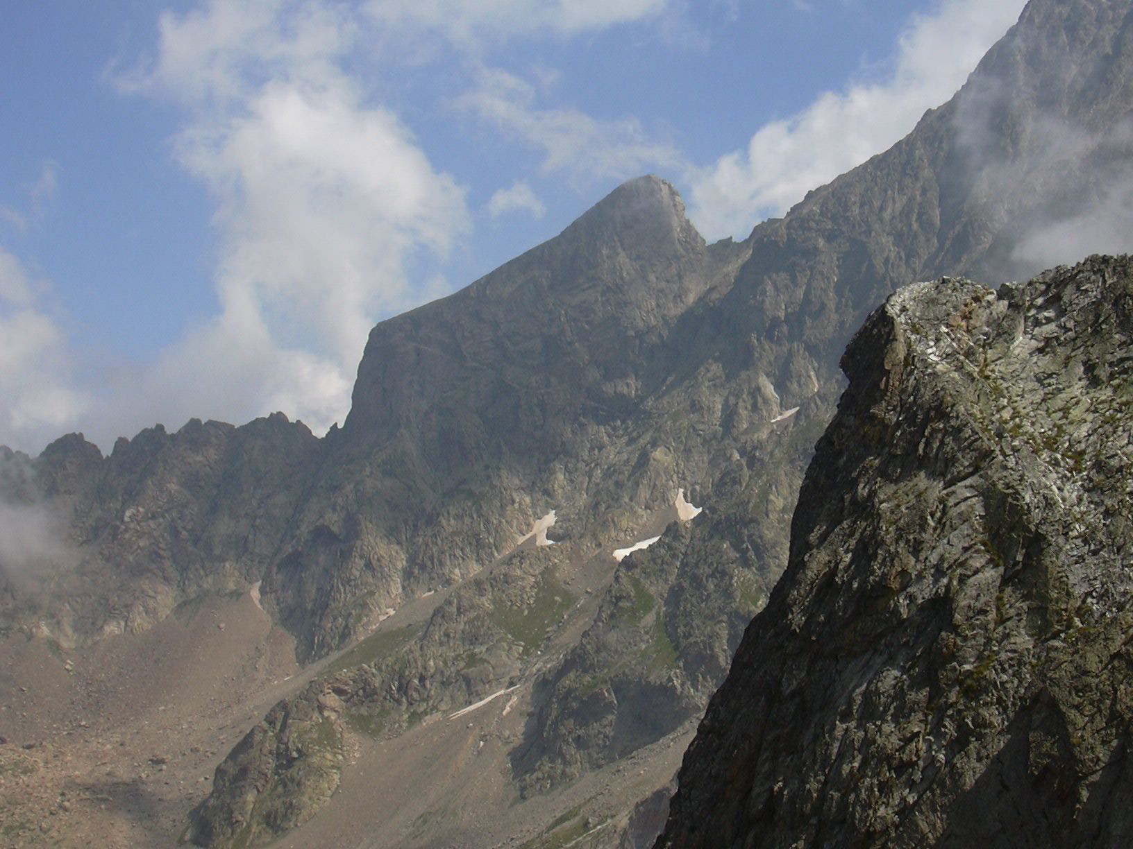 South side of Corno Stella as seen from Madre di Dio; Maritime Alps